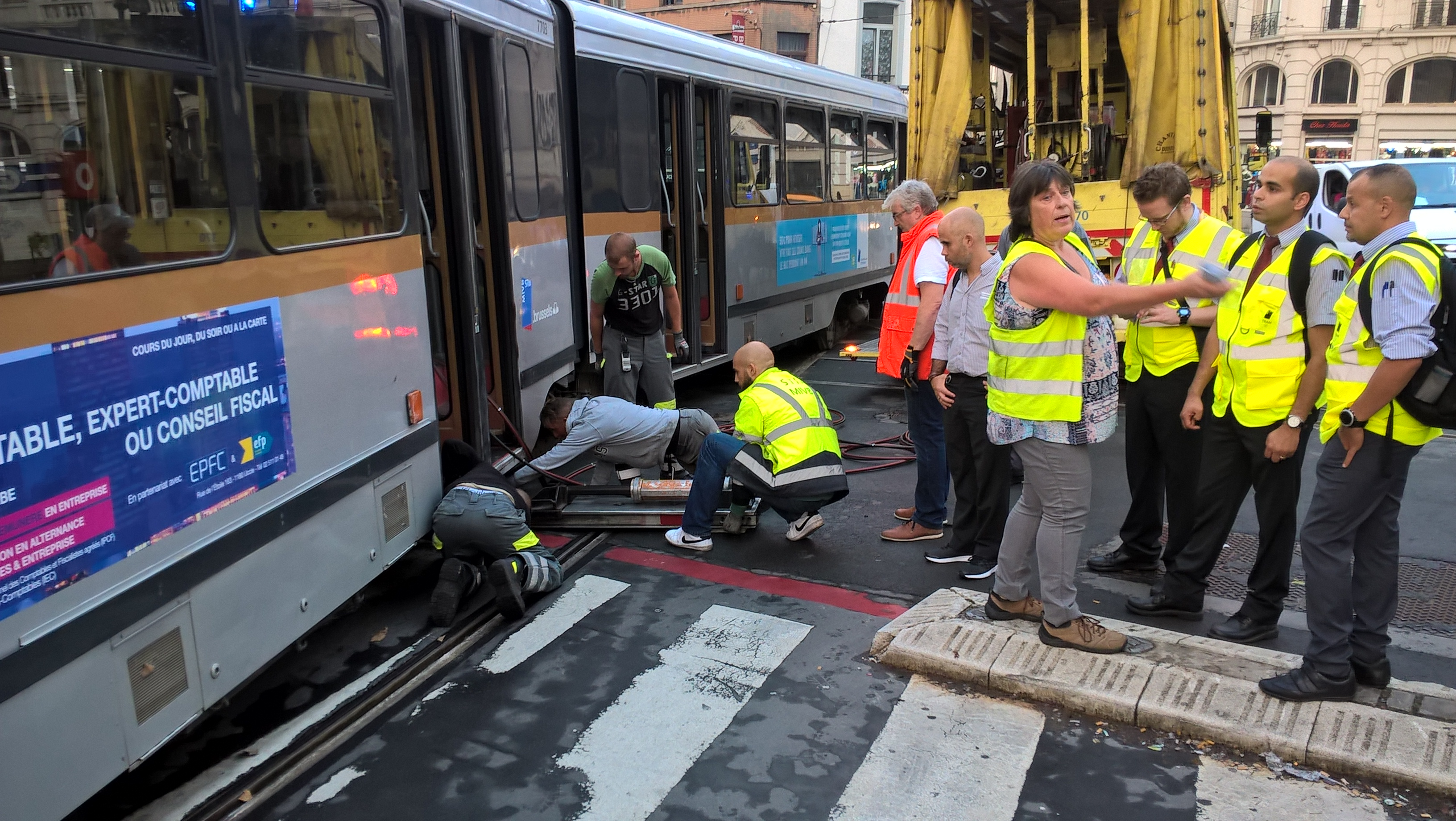 STIB staff use a pneumatic ram to rerail a 97 tram at the Barrière de St-Gilles, Brussels at 19:40, 5 Sep 2018